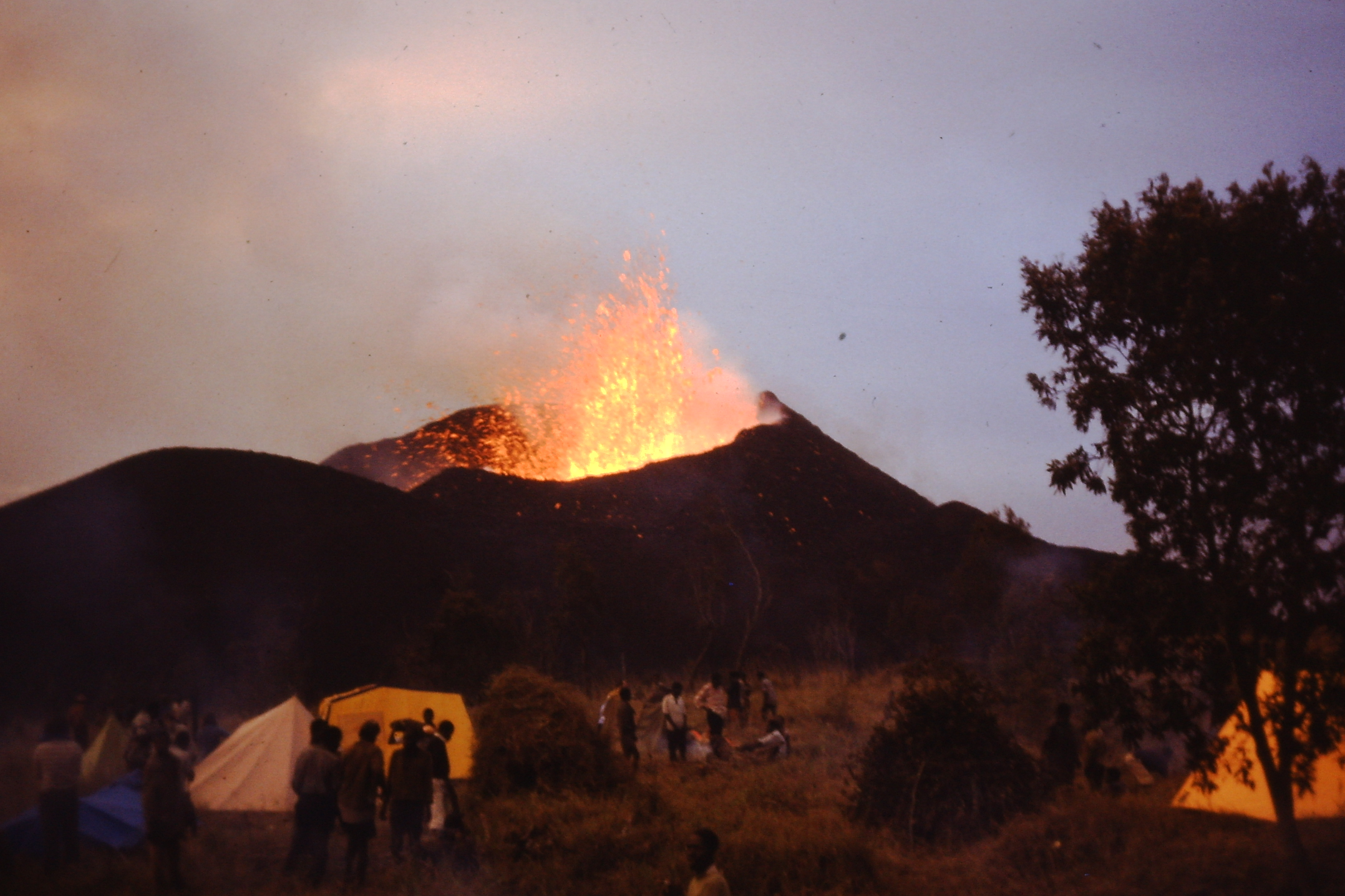 Murara was a small, short-lived, cinder cone on the flank of Mount Nyamuragira, that began erupting on December 23, 1976. Eruptions from Murara reduced considerably after the eruption of Mount Nyiragongo on January 10, 1977 and ended completely in April 1977. Photo taken at time of maximum activity, two days before the Nyiragongo eruption and just before nightfall. Temporary camp in foreground was organised for visitors by the Virunga National Park authority.